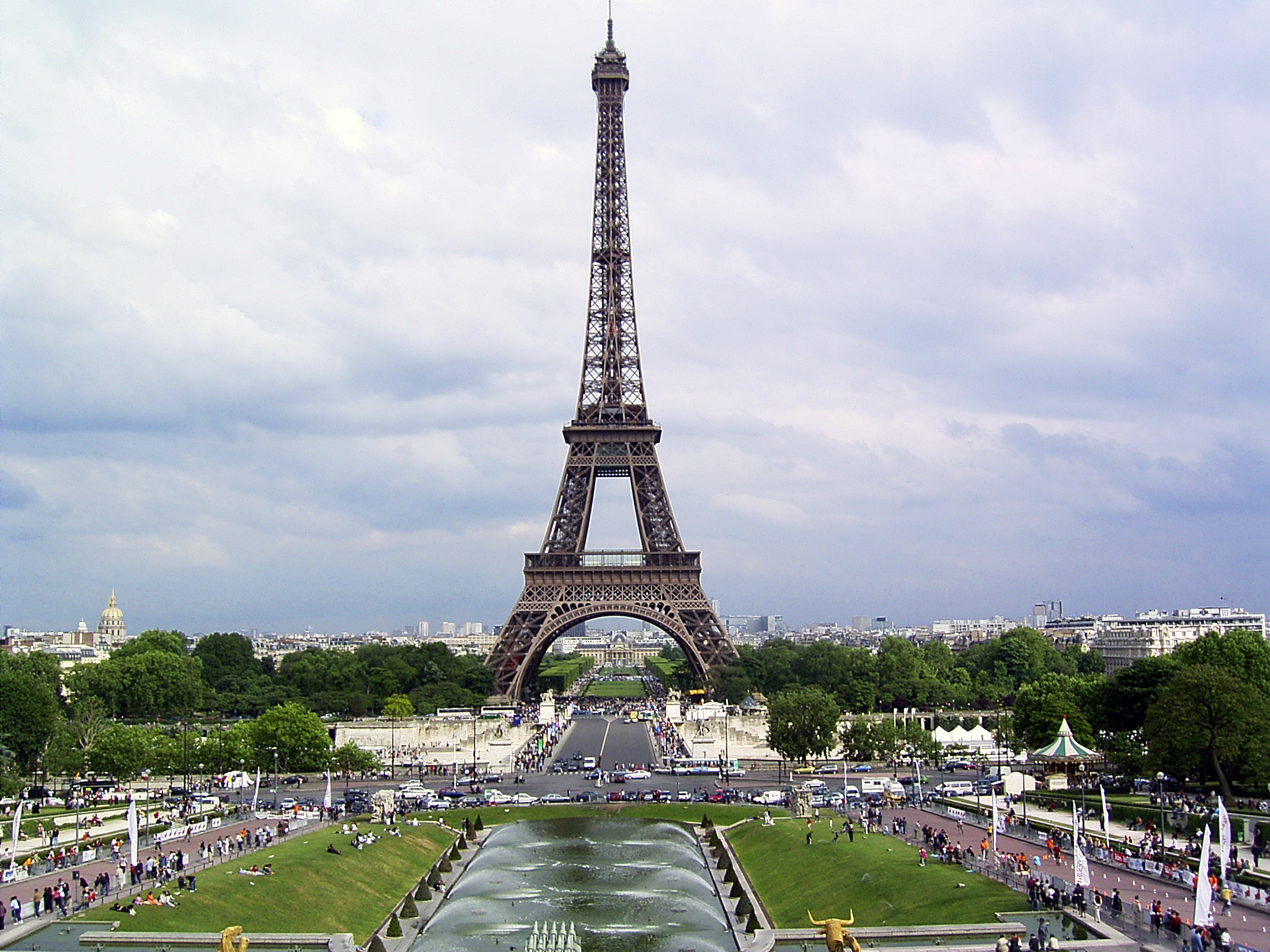 Eiffel tower, Paris